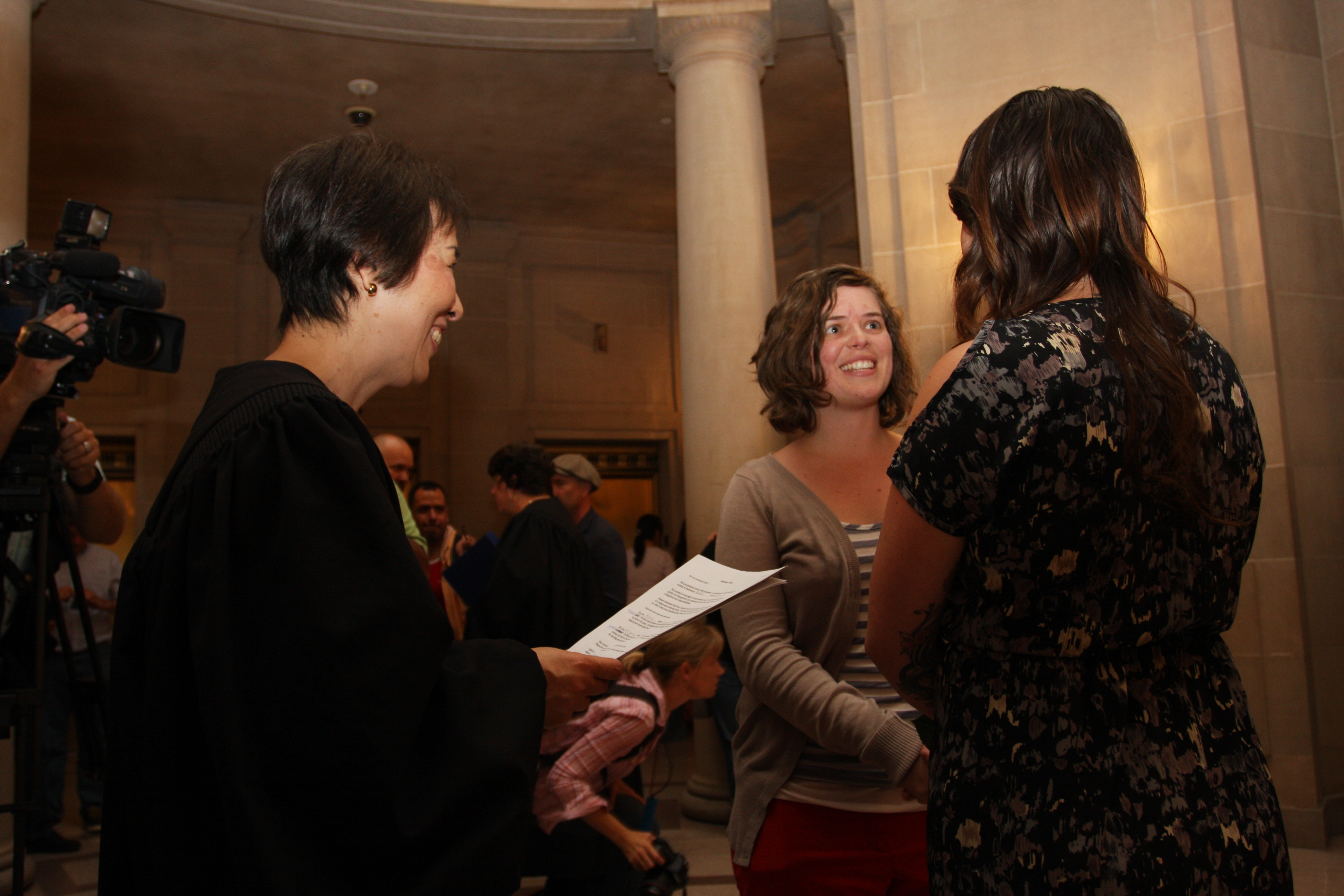 These photos were all shot on Friday, June 28, within hours of the city being able to grant marriage licenses.